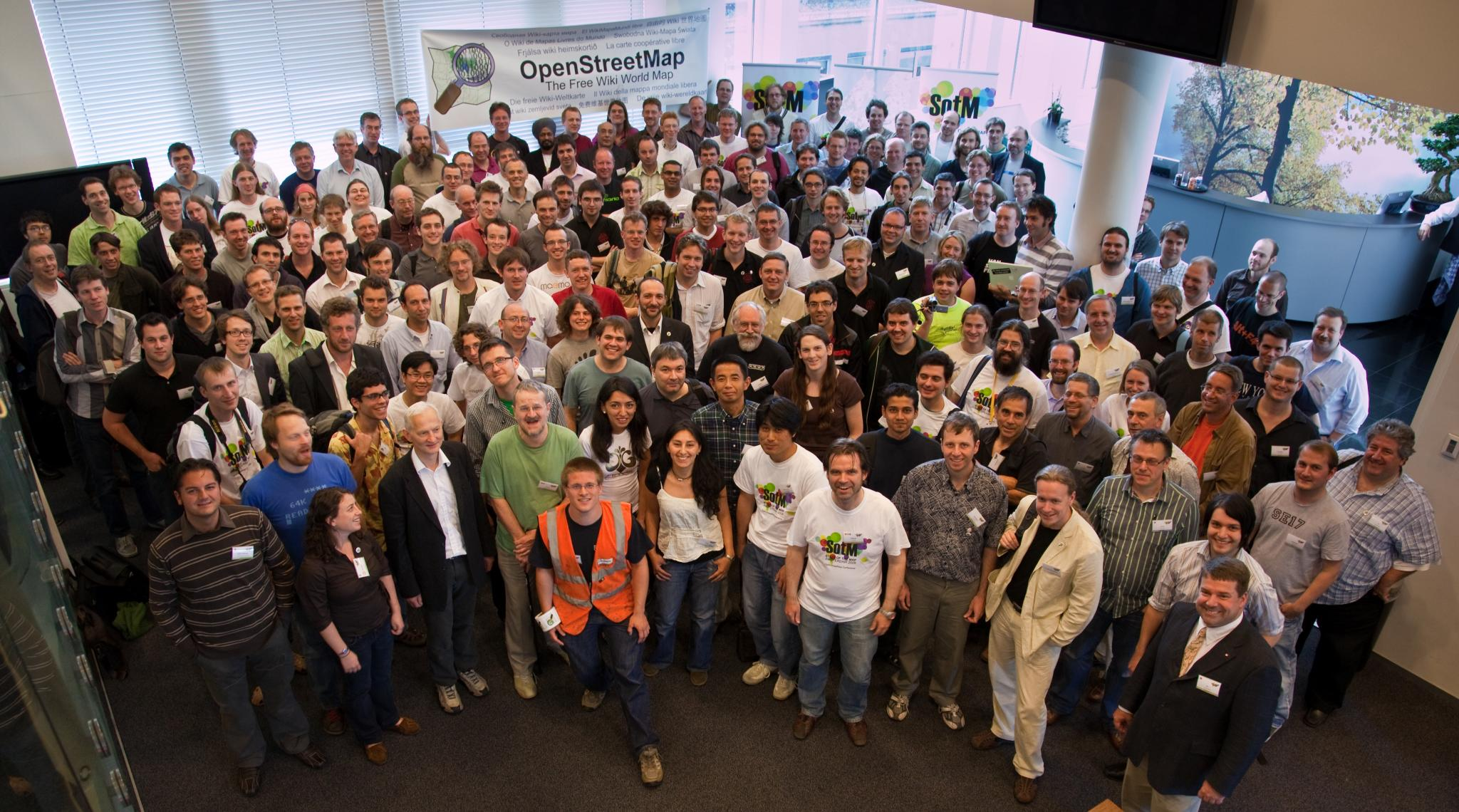 State of the Map 2009